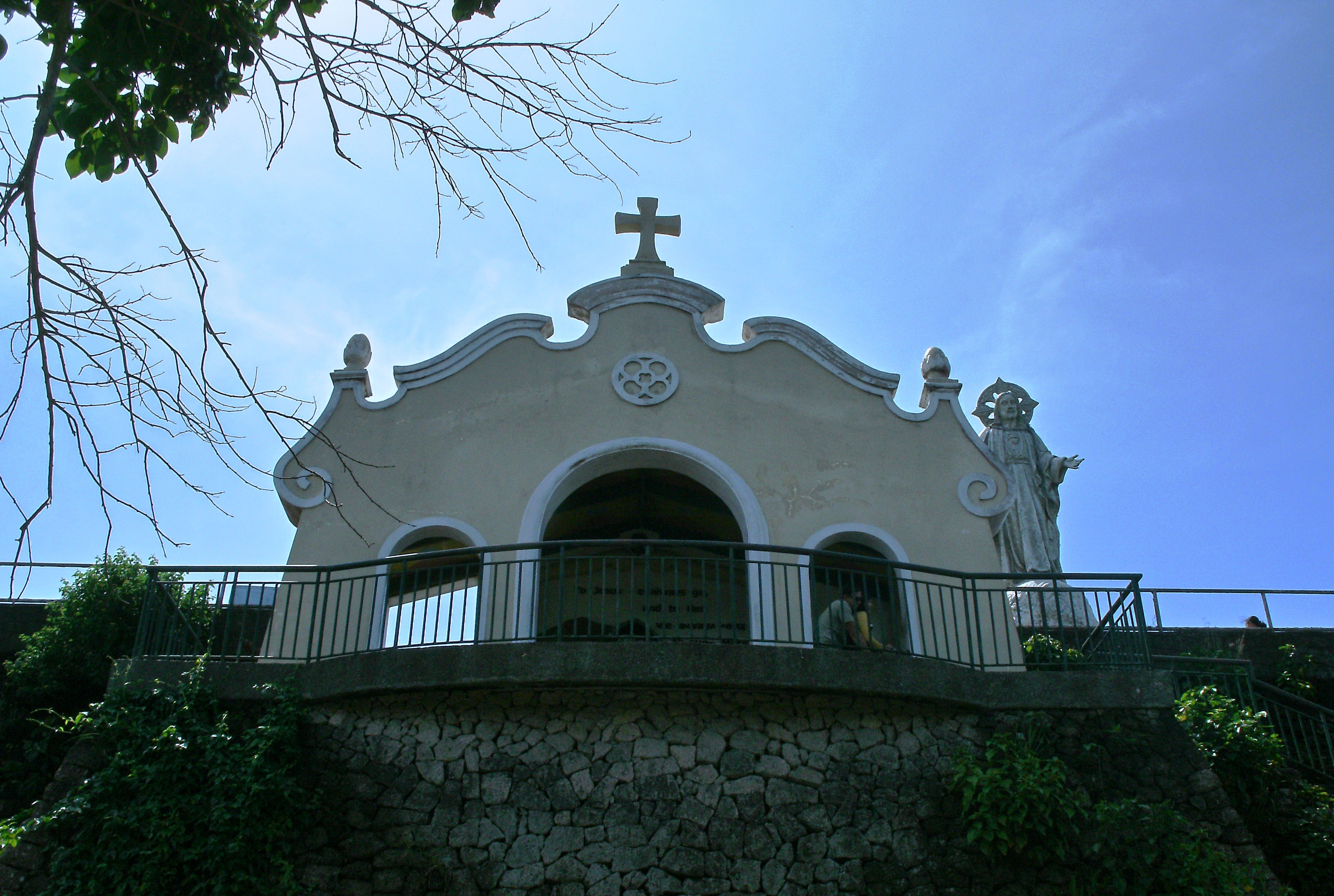 People's Park chapel, Tagaytay City